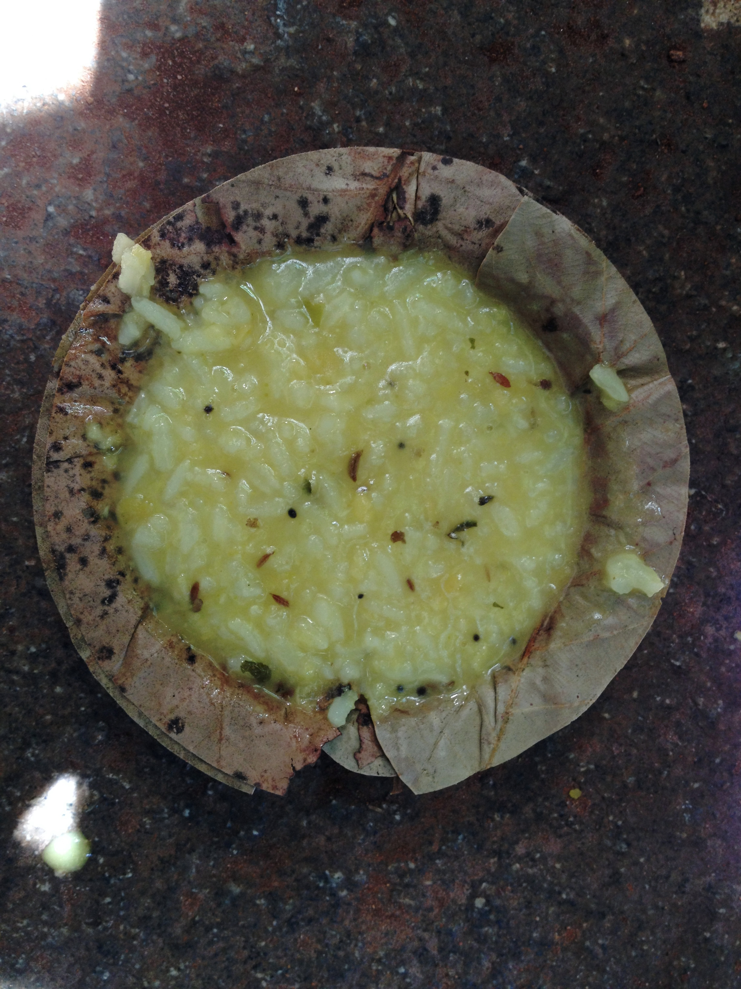 Special Kichdi Prasadam freely served in Donnas(dried banana leaf cups) to every visitor in Iskcon Bangalore temple, Bangalore.